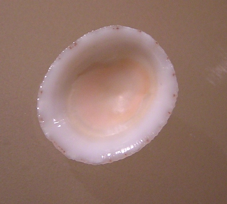 Eoacmaea profunda (Deshayes, 1863) (synonym: Patelloida profunda G. P. Deshayes, 1863), a limpet from the family Lottiidae; Philippines